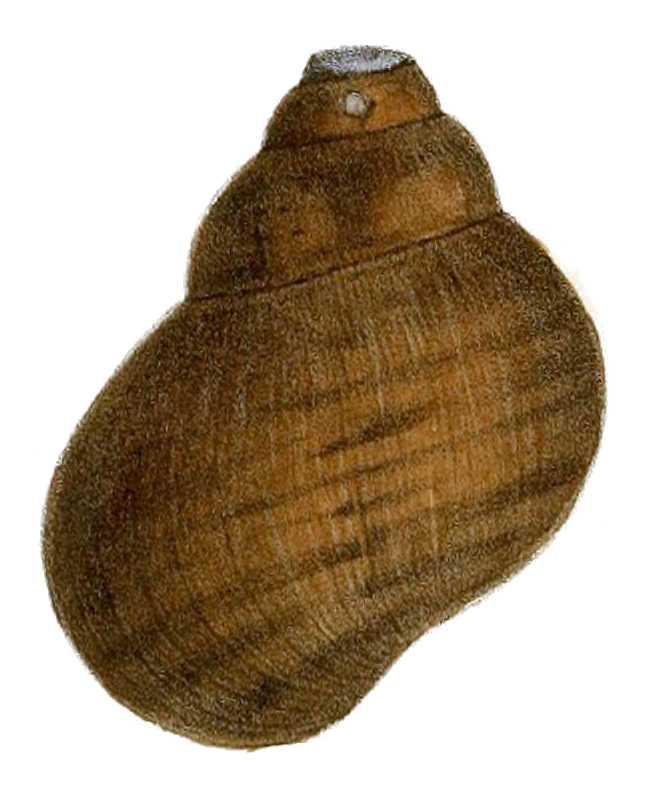 Drawing of an abapertural view of a shell of Asolene petiti.